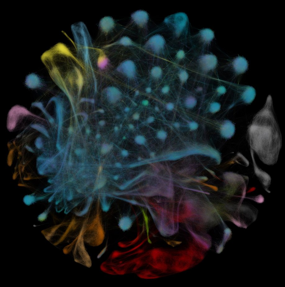 In this image, roughly 100,000 cells from rhesus macaques are shown, with genetically and phenotypically similar cells clustered together. Every dot represents a single cell and the lines connecting them reflect how similar they are. Each colour highlights cells from a different tissue eg thymus and lymph nodes (shades of blue), bone marrow (red), blood (white), tonsil (yellow), gut (shades of brown), brain (grey), liver (green), spleen (purple) and lung (pink). Several clusters are multicoloured and often contain mobile cells from the immune system that travel between different parts of the body.